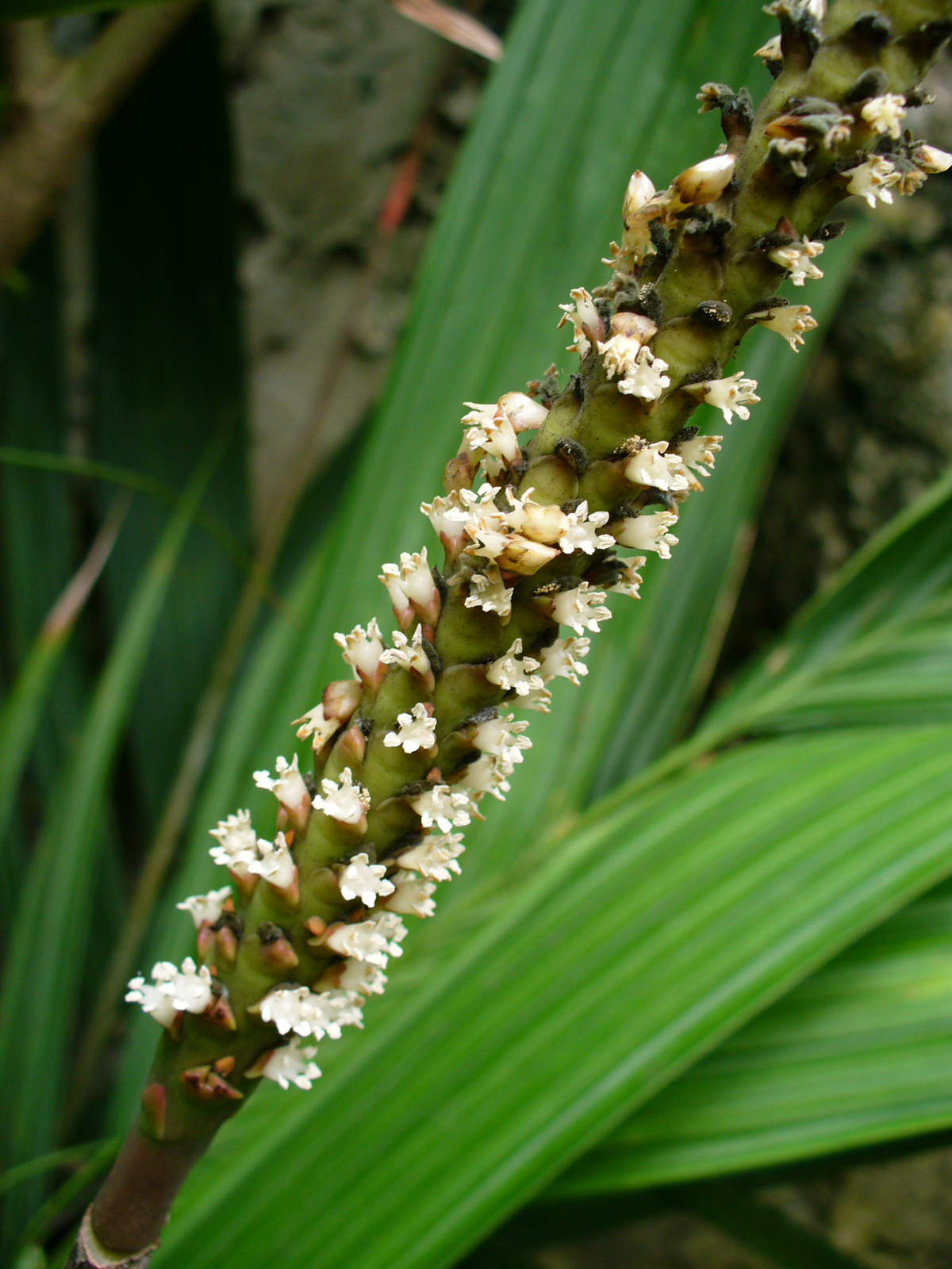 Fairchild Tropical Botanic Garden, Miami, FL, USA. Flowers smell of onions and garlic. In the wild, they are pollinated by bats.